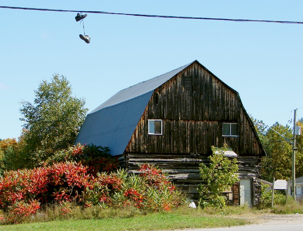 Kiji Woodwork in the Pikwàkanagàn First Nation, Renfrew County, Ontario, Canada